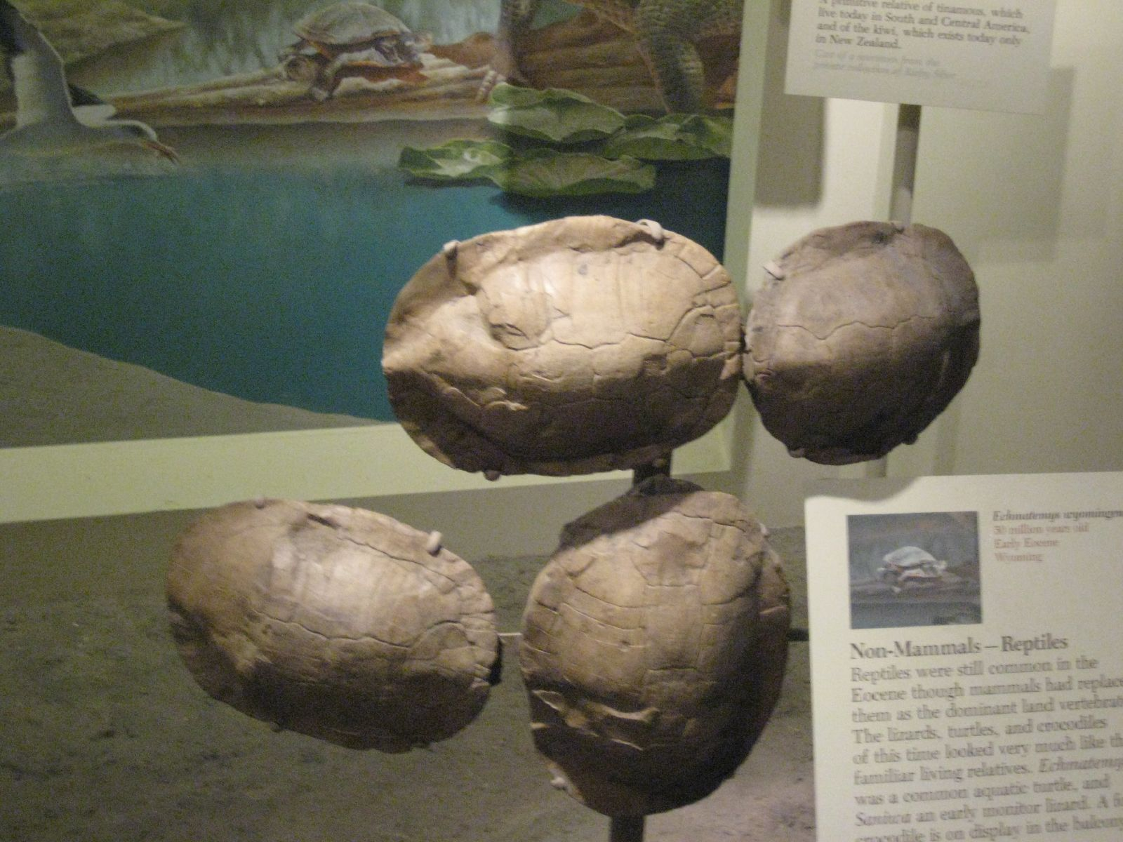 Echmatemys wyomingensis 50 million years old Early Eocene